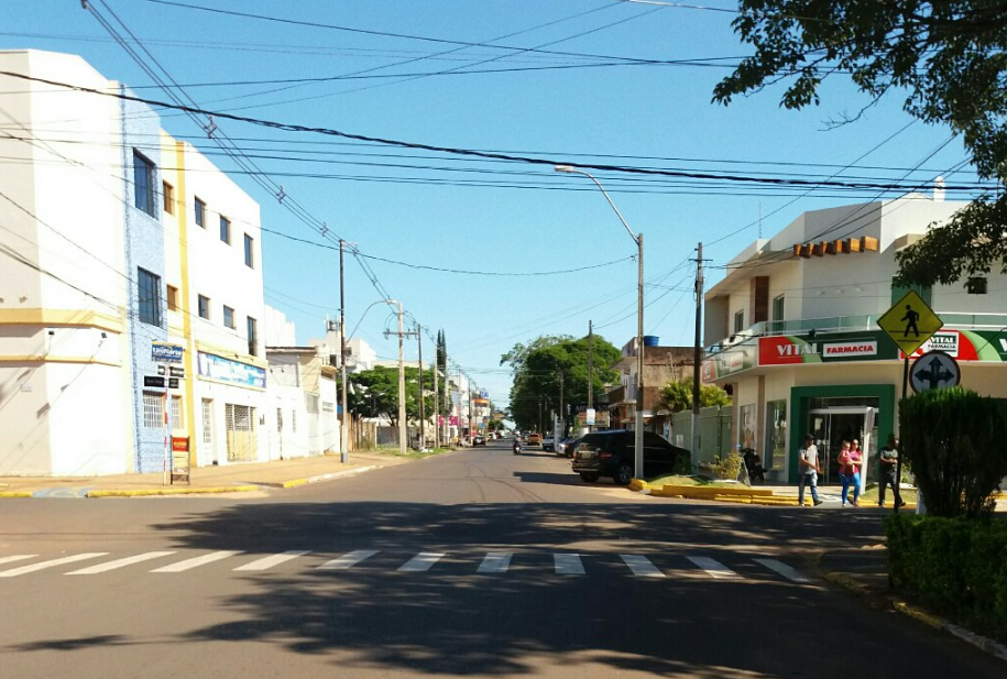 Downtown of Pedro Juan Caballero